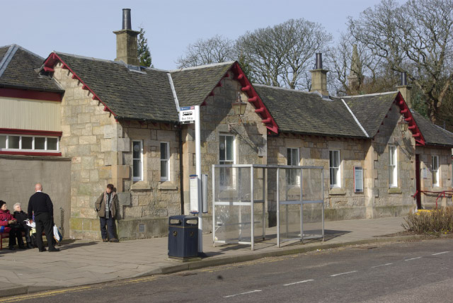 Milngavie Station Attractive station buildings at the end of the branch line from Westerton (although trains run through to and from Glasgow and beyond).